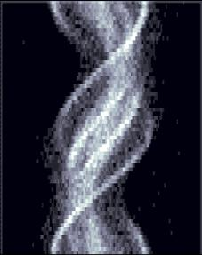 A SPECT Sinogram with a full 360 view.